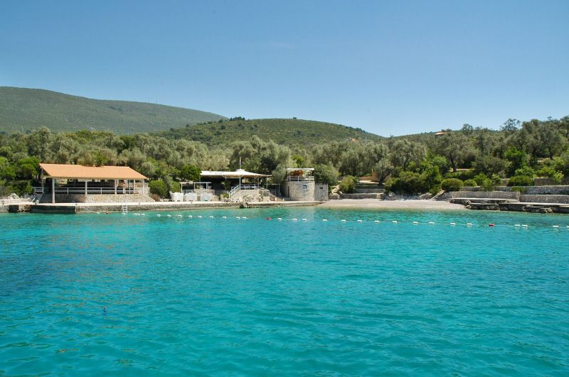 I made this photo myself